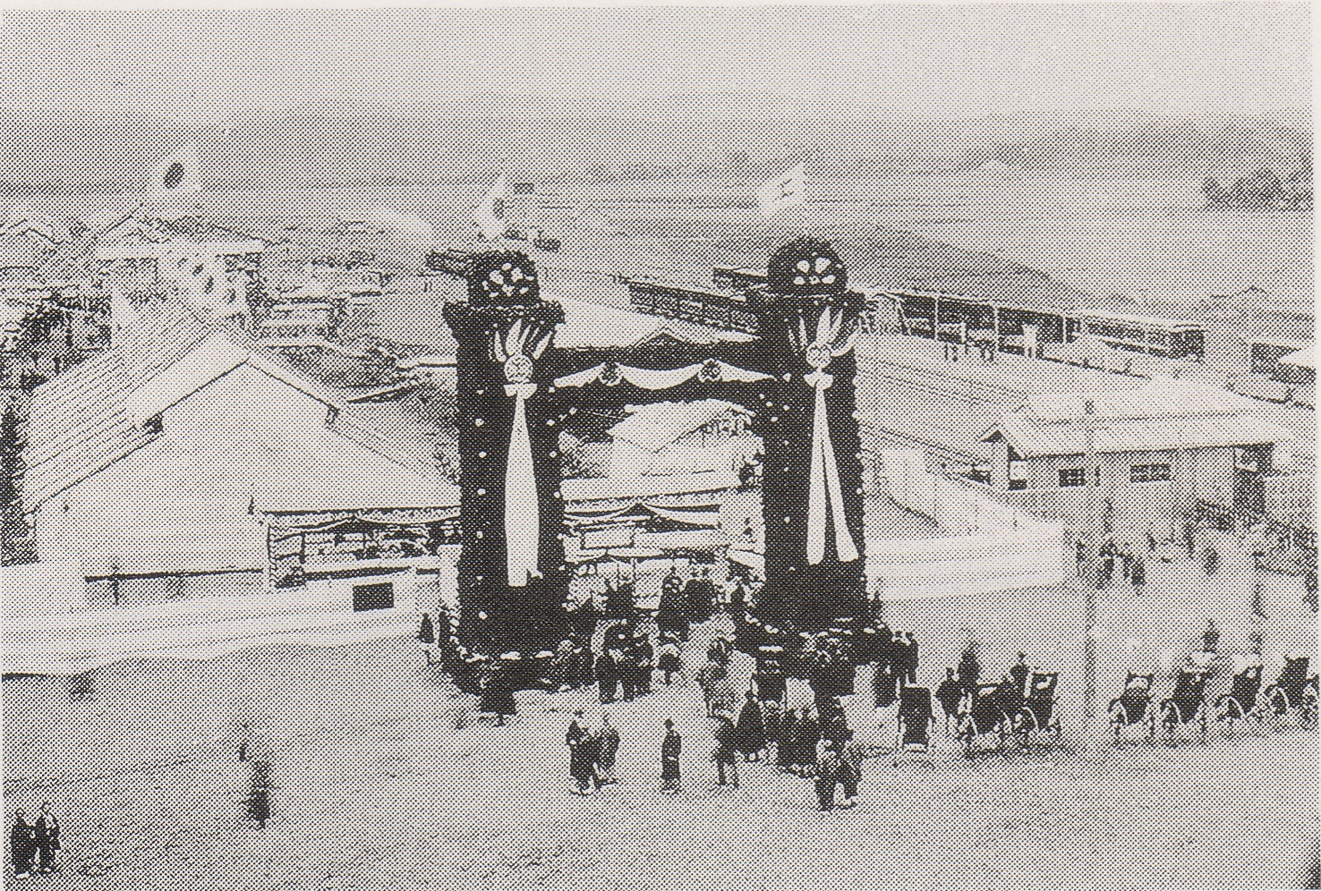 Opening ceremony of Oita station, Oita city Oita prefecture Japan.